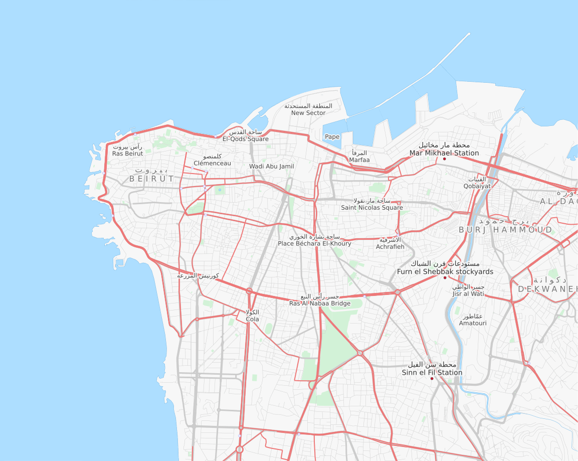 Street map for Beirut, Lebanon Equirectangular projection, vertical stretching – % Border coordinates33.9206535.45248←↕→35.5514933.85524 Info This map is part of a series of location maps with unified standards: SVG as file format, standardised colours and name scheme. The boundaries on these maps always show the de facto situation and do not imply any endorsement or acceptance. In case of changes of the shown area the file is updated. The old version will be uploaded as a new file and thus is still available.